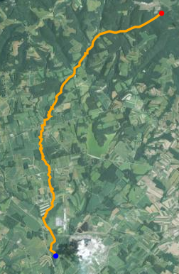 Satellite map of West Branch Chillisquaque Creek . The red dot is the stream's source and blue dot is its mouth. Data available from U.S. Geological Survey, National Geospatial Program.